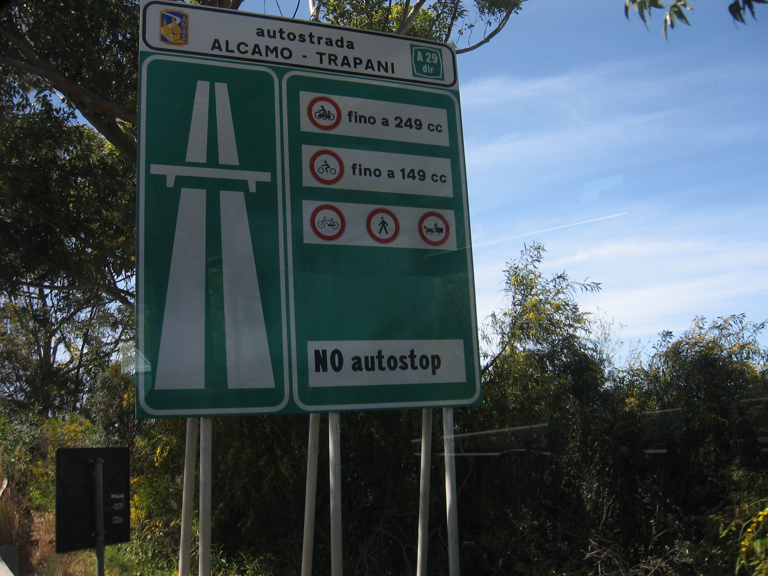 A29 Italy